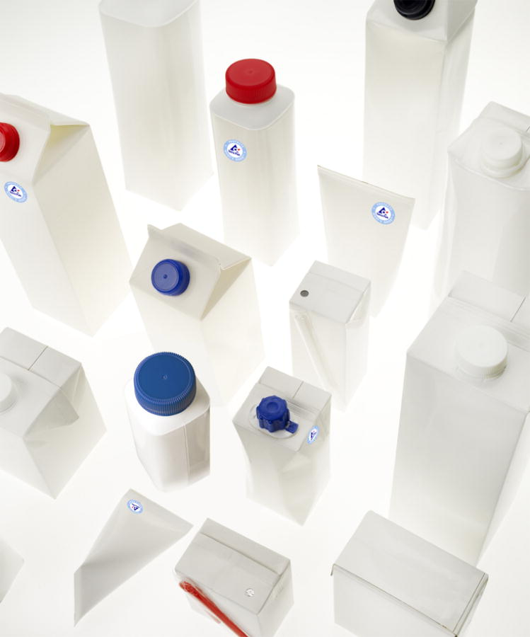 Tetra Pak package portfolio